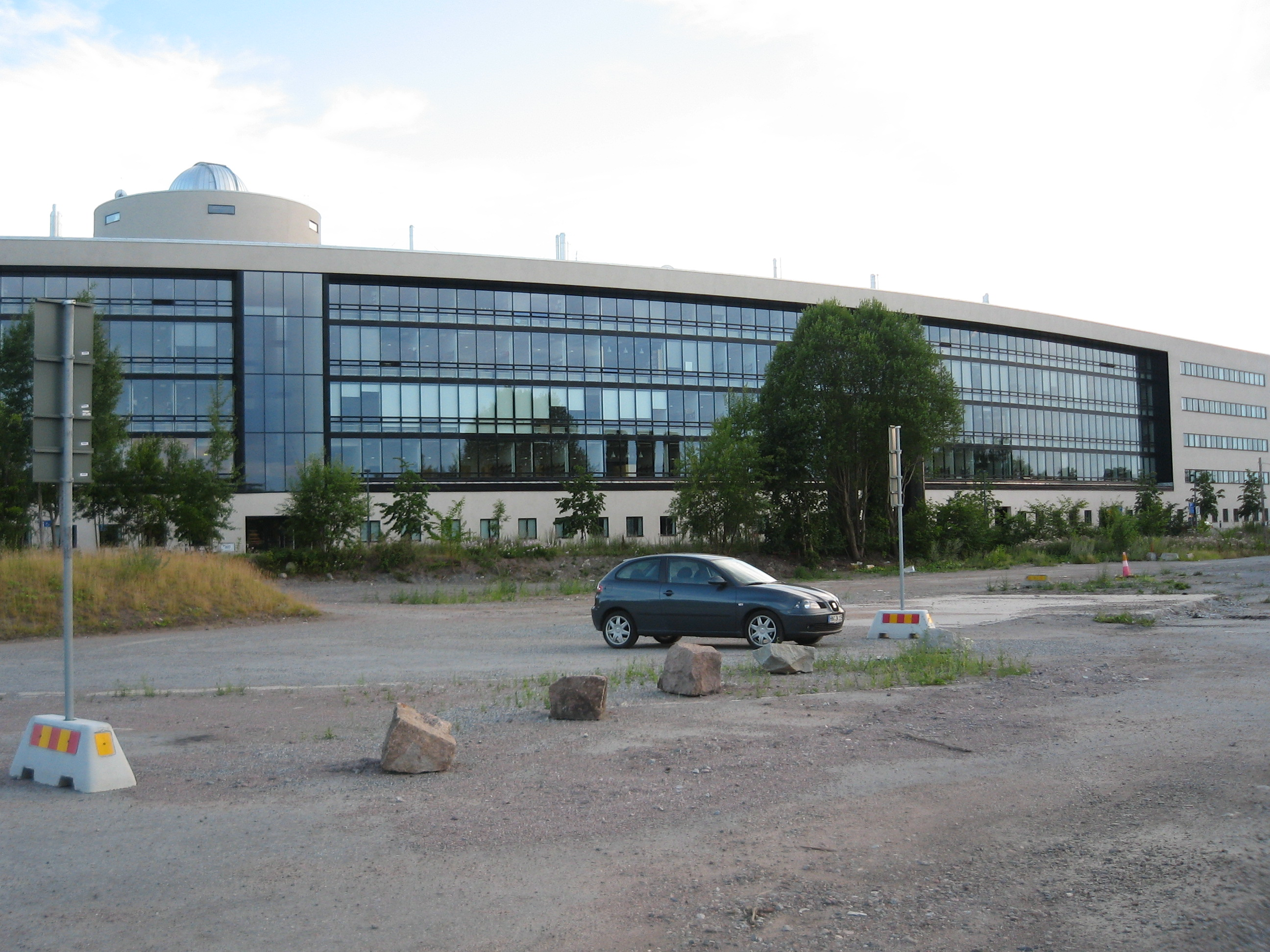 Albanova, part of University of Stockholm.